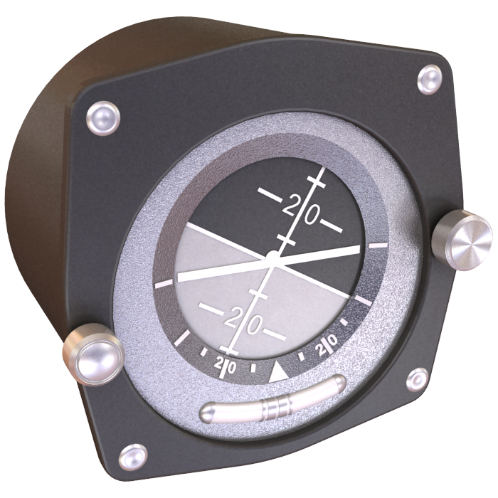 3D render of AGI1